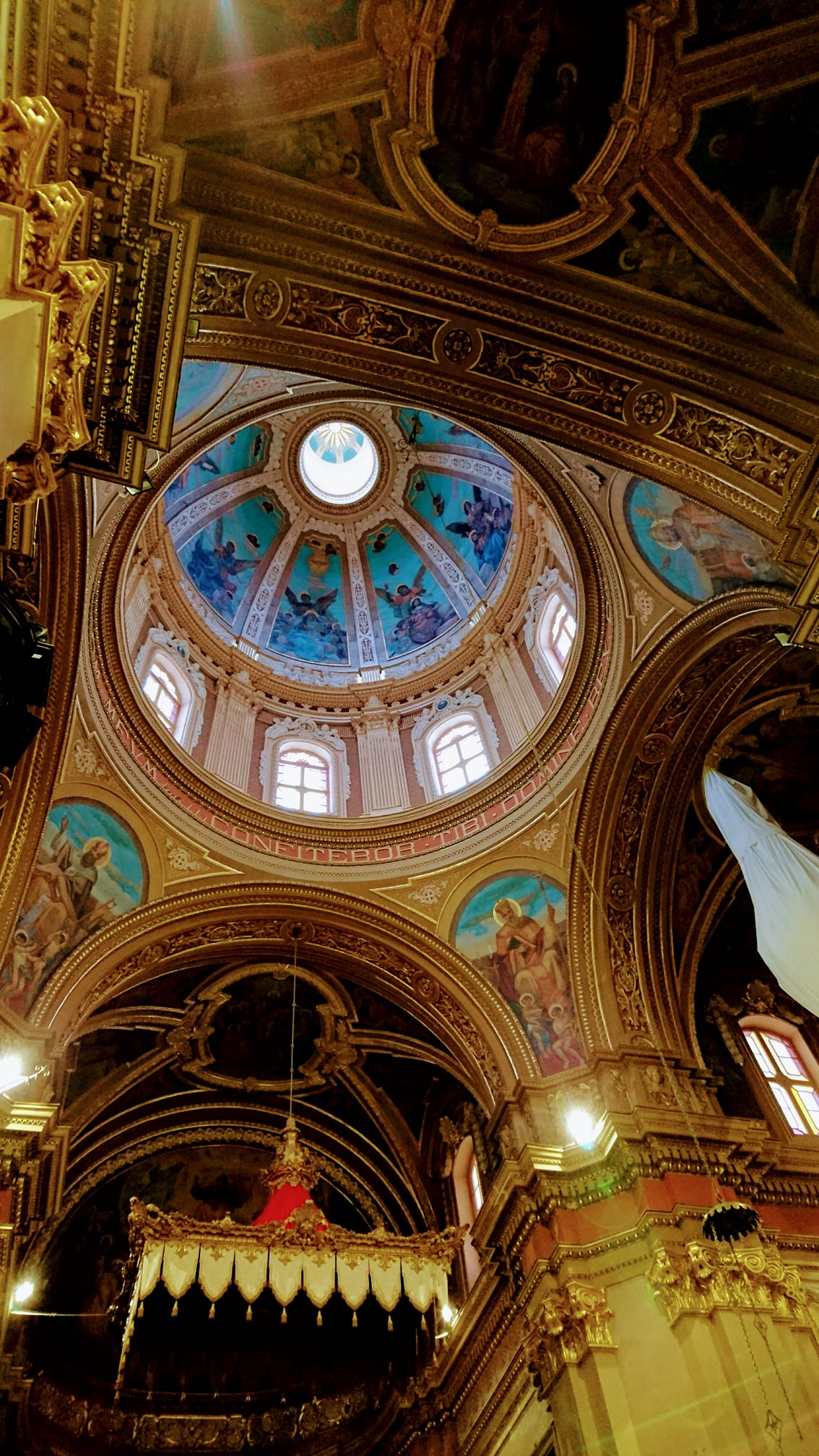 Dome and interior view of the Parish Chuch of Saint Catherine in Żejtun